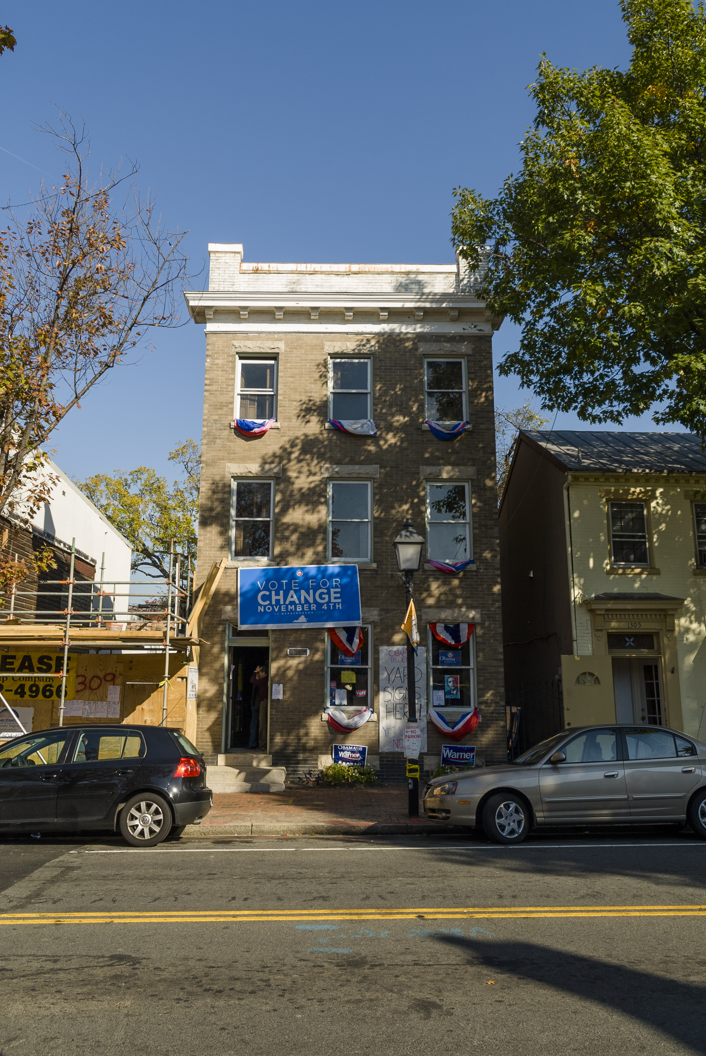 An Obama 08 campaign office in Arlington, VA, photographed days before the election.